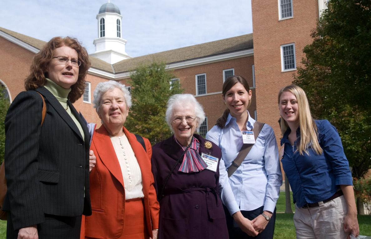 From L to R: Anne Kinney, NASA Goddard Space Flight Center, Greenbelt, Md.; Vera Rubin, Dept. of Terrestrial Magnetism, Carnegie Institute of Washington; Nancy Grace Roman Retired NASA Goddard; Kerri Cahoy, NASA Ames Research Center, Moffett Field, Calif.; Randi Ludwig. University of Texas, Austin, Texas. Photo taken during the NASA Sponsors Women in Astronomy and Space Science 2009 Conference, held at the University of Maryland University College (UMUC) Inn and Conference Center, Adelphi, Md, October 21-23 2009